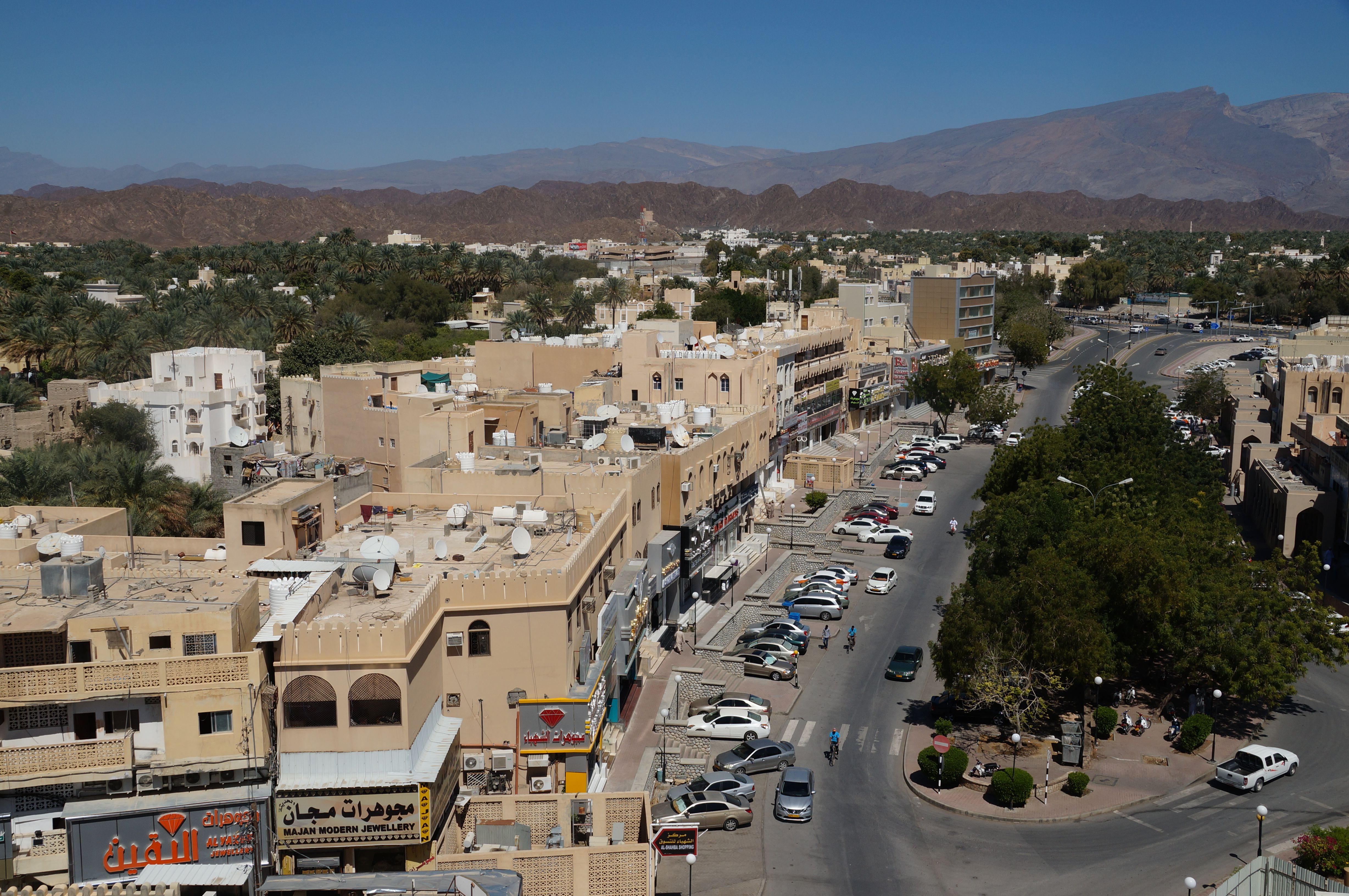 Downtown Nizwa, Oman, seen from the top of the tower